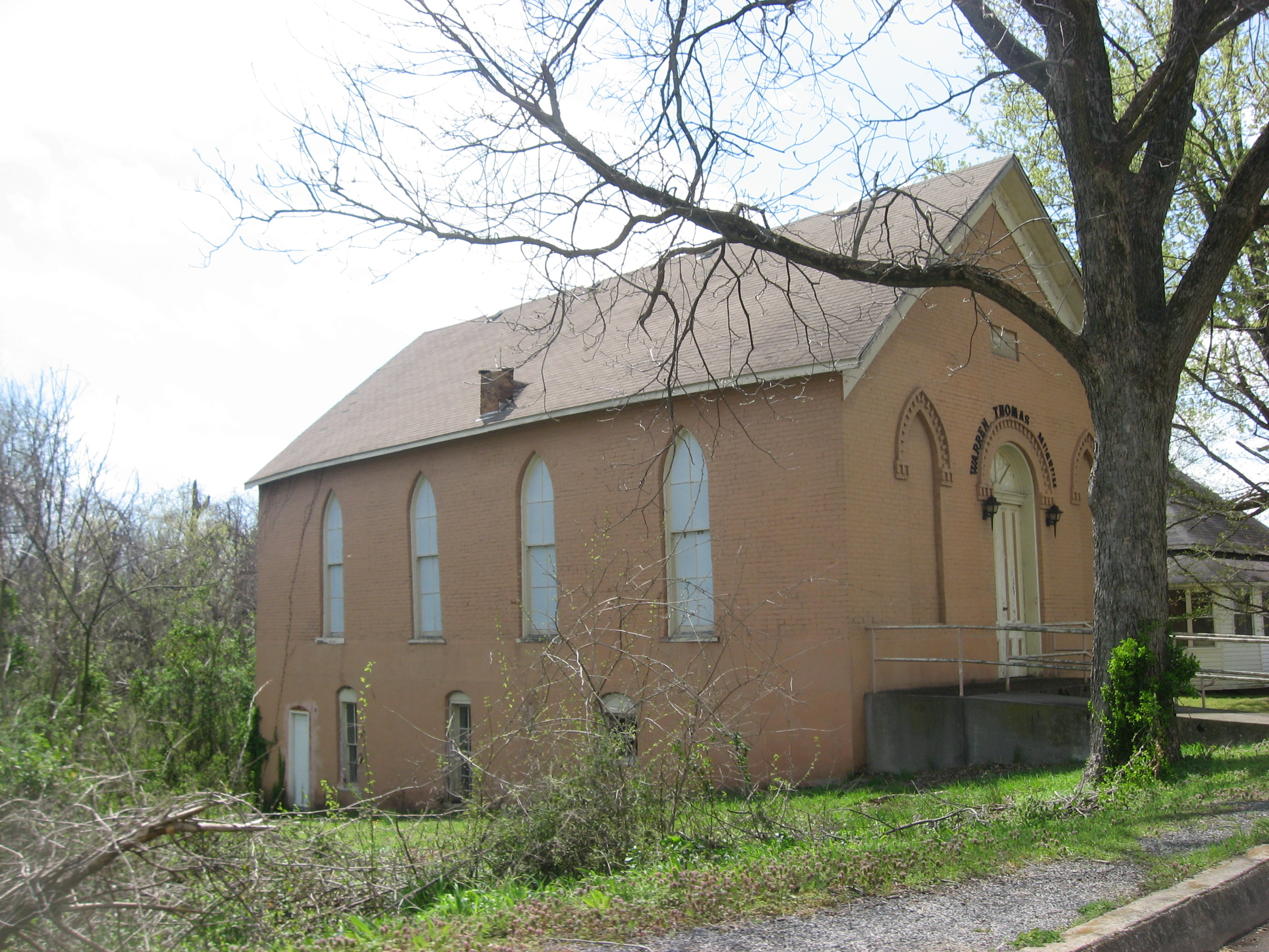 Eastern side and front of the Thomas Chapel C.M.E. Church, located on the southern side of Moscow Avenue (Kentucky Route 94) east of Myatt Street in Hickman, Kentucky, United States. Built in 1895, it is listed on the National Register of Historic Places.